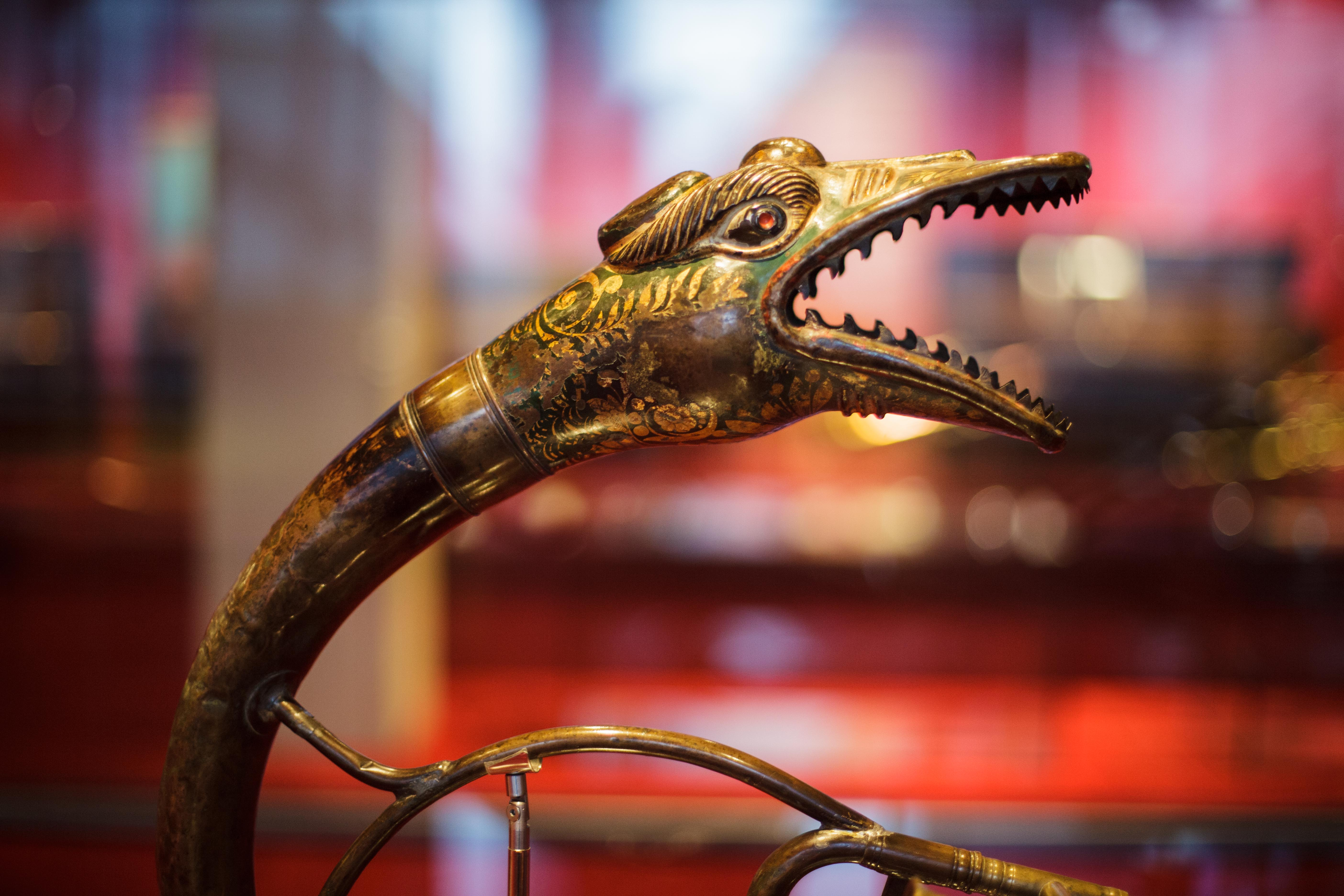 Detail of a buccin, Museum Music of Barcelona References MDMB 369 : buccèn (1800-1860). Museu de la Música, El web de la ciutat de Barcelona.